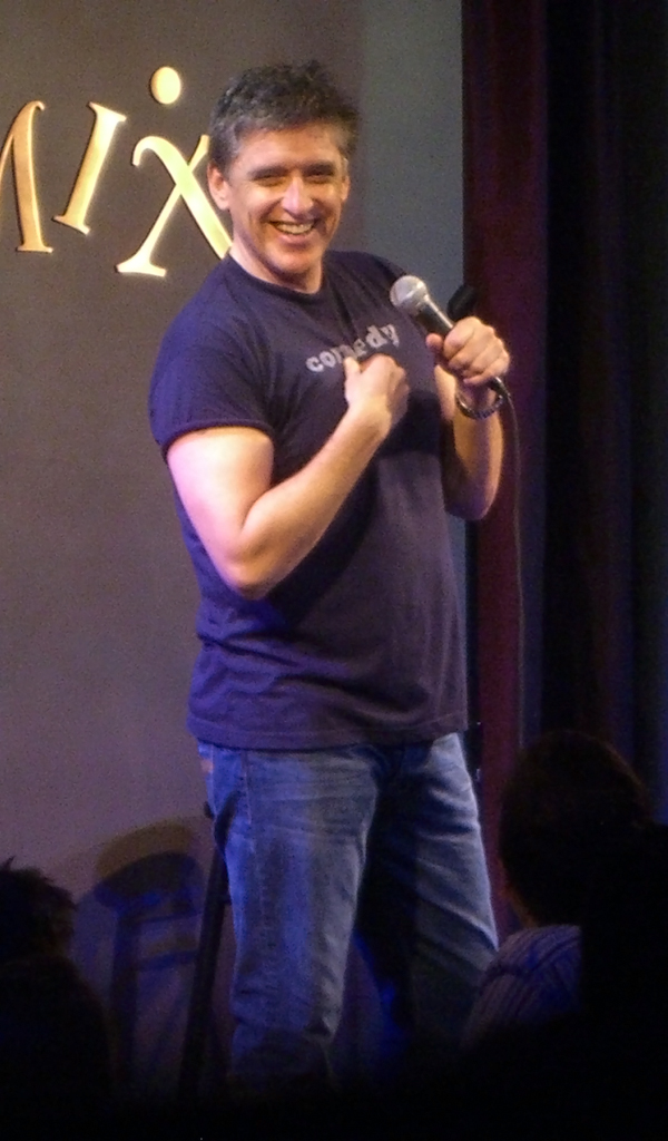 Scottish comedian and talk-show host Craig Ferguson performing standup at Comix in New York City